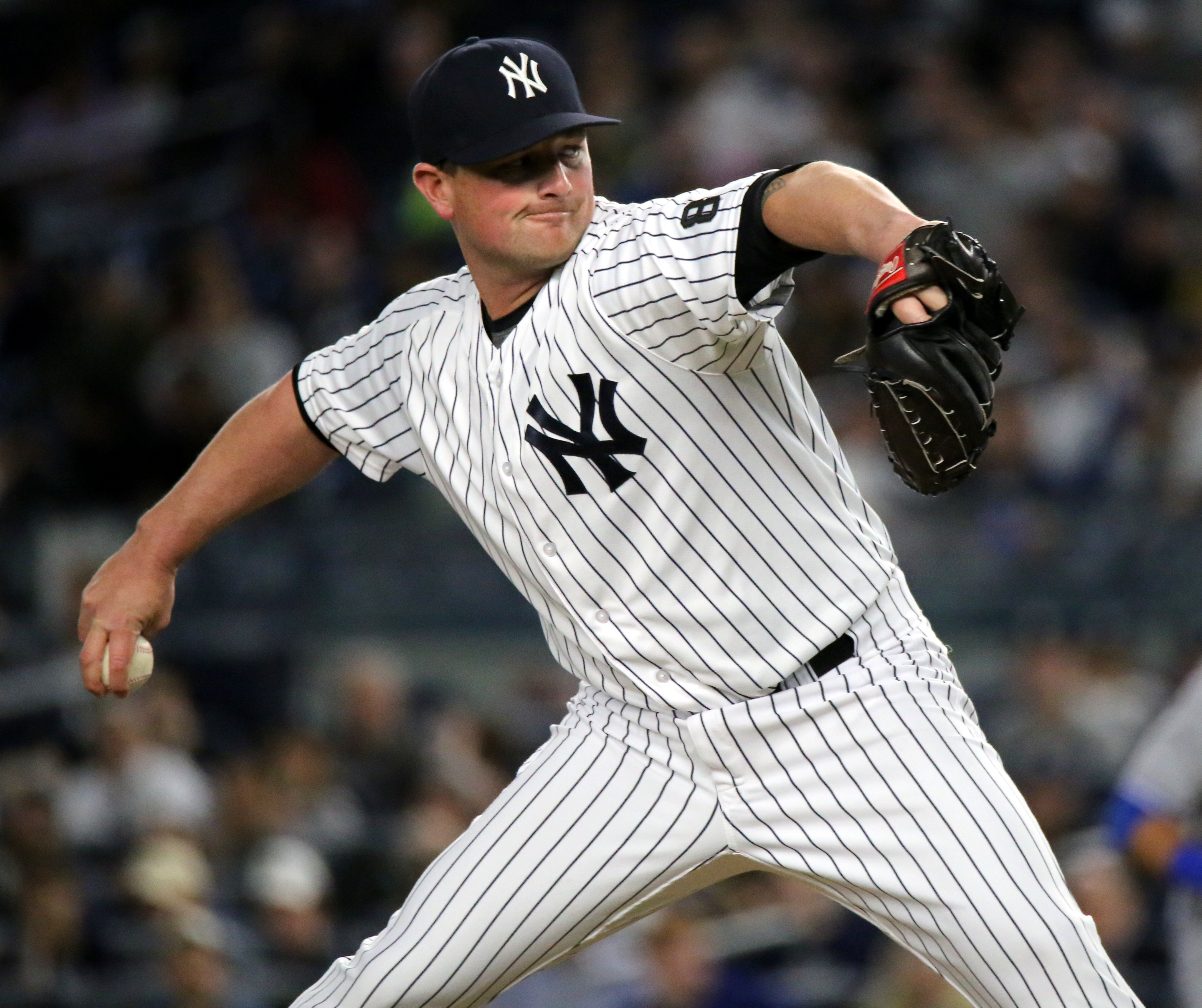 Kirby Yates